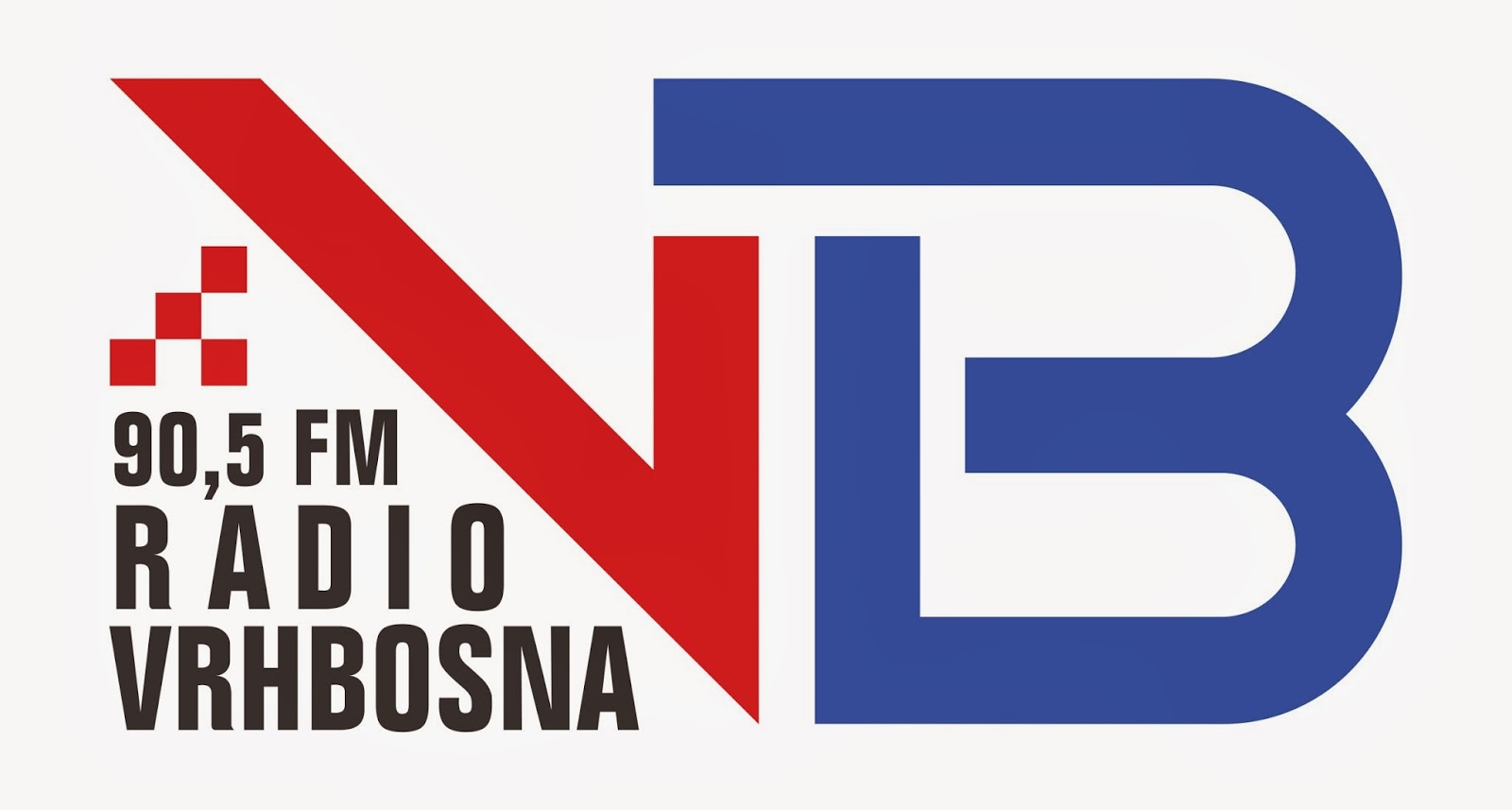 Logo of the Radio Vrhbosna.